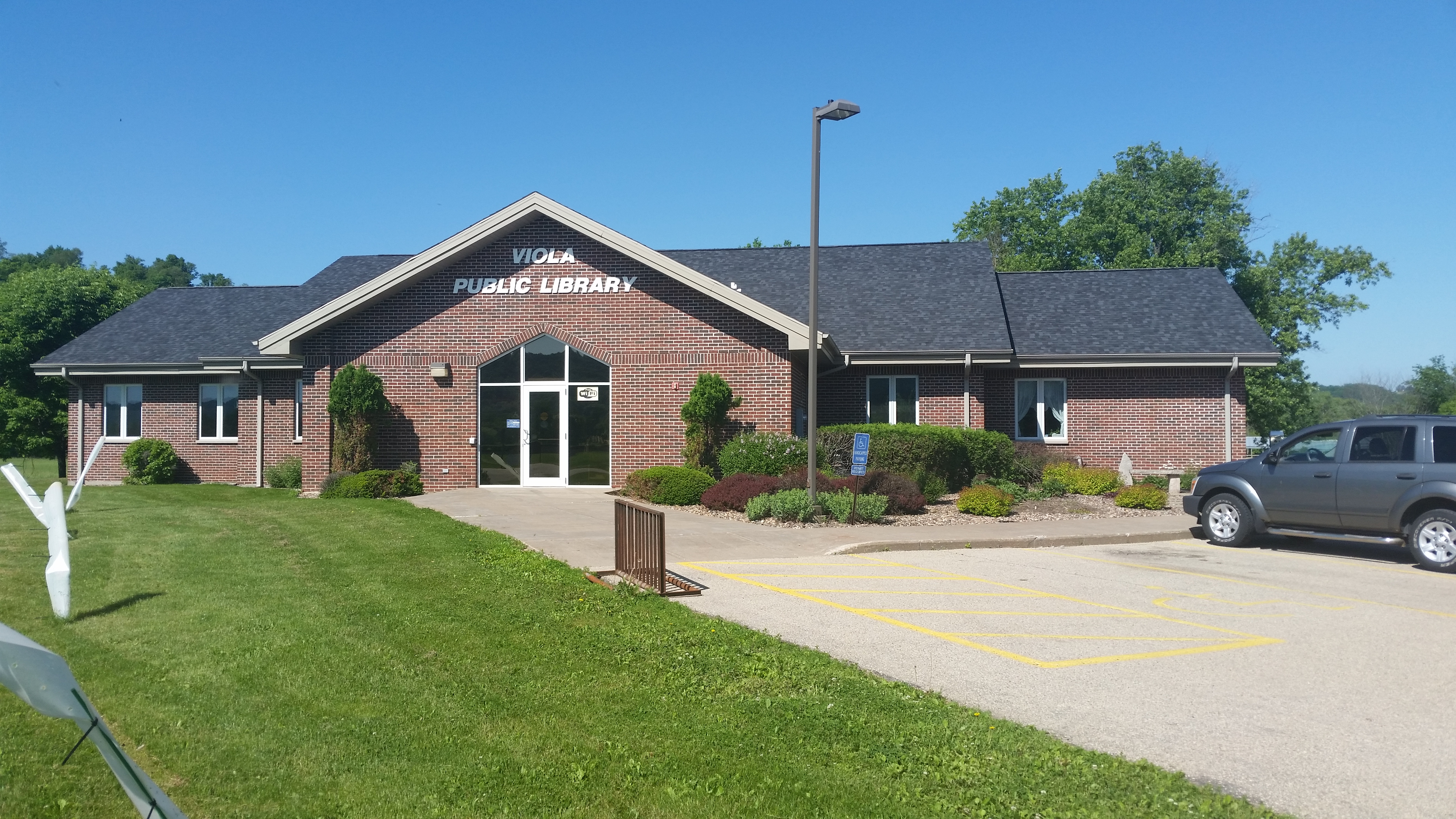 Viola Public Library located on Hwy 56 (137 South Main Street). 43°30'18.1"N 90°40'01.9"W